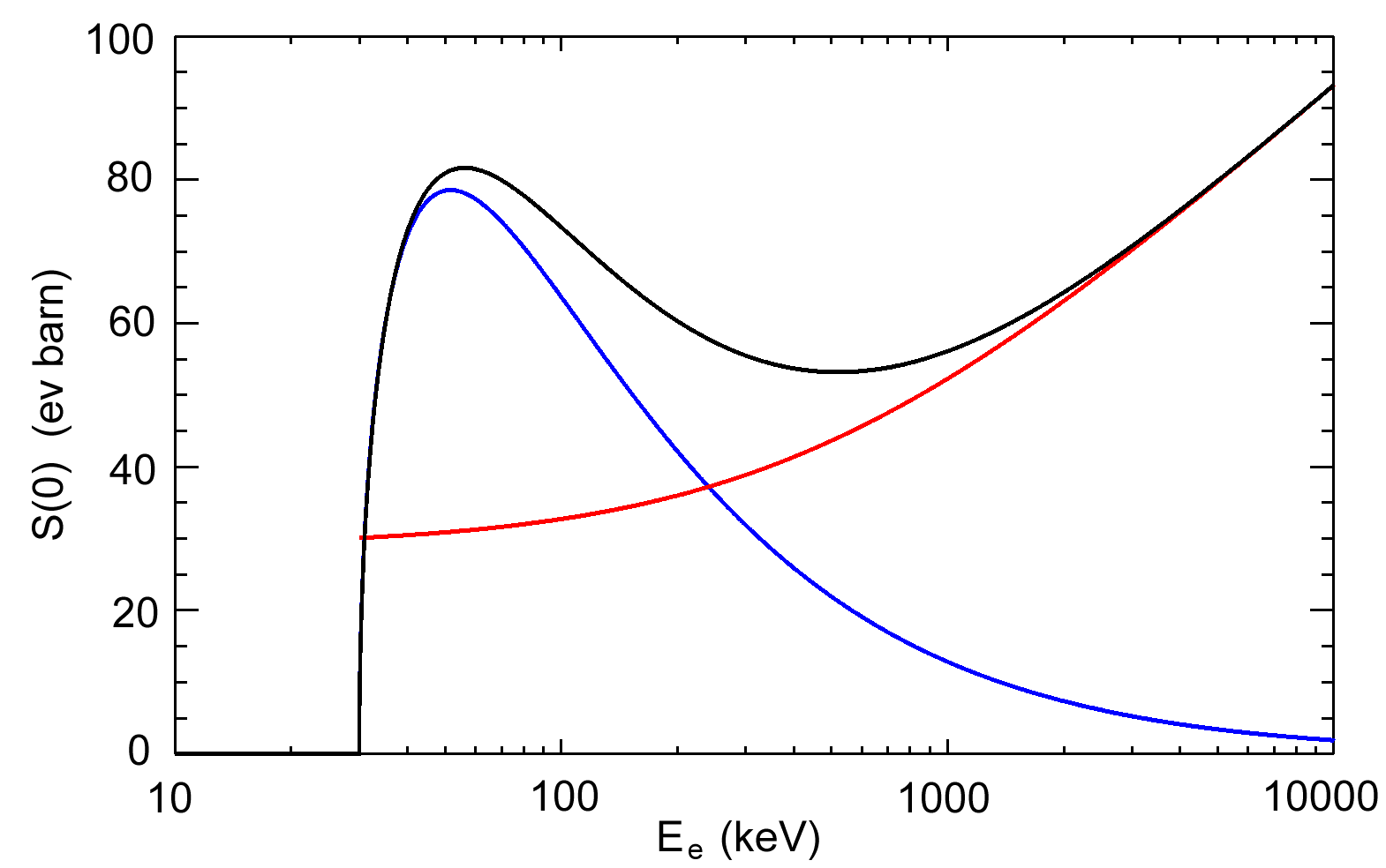 Bremsstrahlung Cross section for the emission of a 30 keV photon